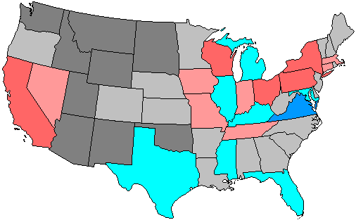 Summary of party change of U.S. house seats in the 1884 House election. Stripes indicate a tie between the gains of two or more parties. Legend: 6+ Democratic seat pickup 3-5 Democratic seat pickup 1-2 Democratic seat pickup 1-2 Republican seat pickup 3-5 Republican seat pickup 6+ Republican seat pickup 1-2 Independent seat pickup 1-2 Labor seat pickup Note: years ending in 2 may have inconsistent results due to redistricting.